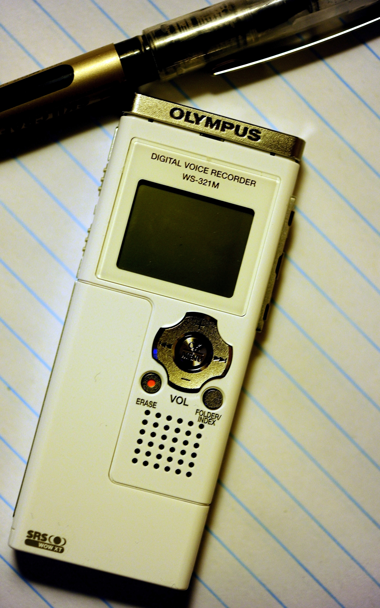 A writing utensil, note paper and a recorder are instruments of necessity during any media day and Thracian Spring 2010’s media day at Plovdiv Airport on April 27, 2010 is not exception to the rule. Many members of the press had their mission essential tools on hand. Thracian Spring is an exercise composed of aircrew, maintenance, airfield management, aerial port, security forces, and logistics personnel that combine their skill in an effort to build and strengthen the United States and Bulgarian Air Forces’ bond while improving interoperability with our partner NATO nation. (U.S. Air Force photo by Master Sgt. Quinton T. Burris)